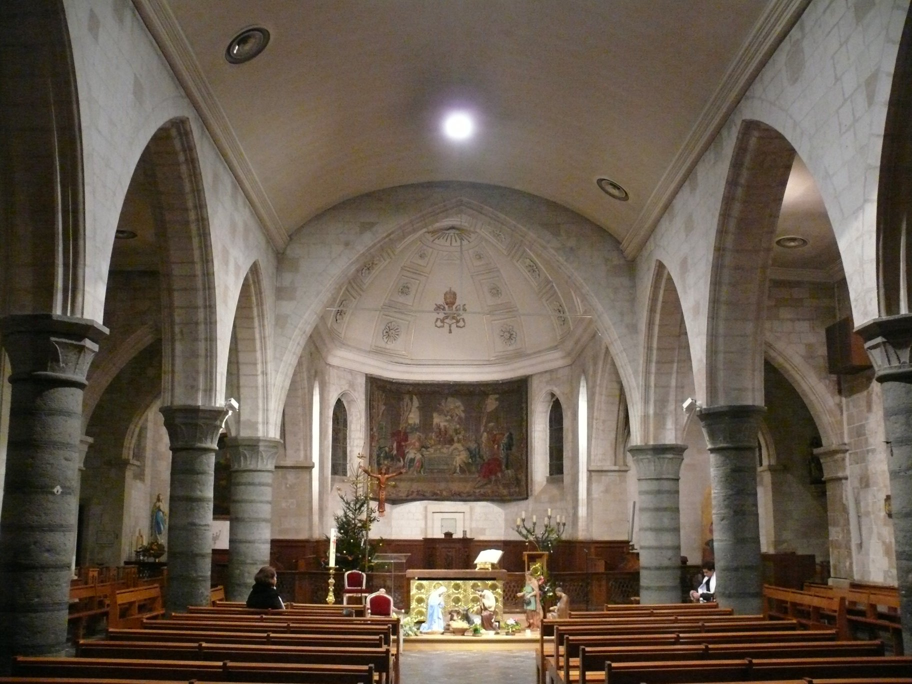 Saint-Pierre-en-Antioche's church of Villeneuve-d'Ascq (Nord, France).